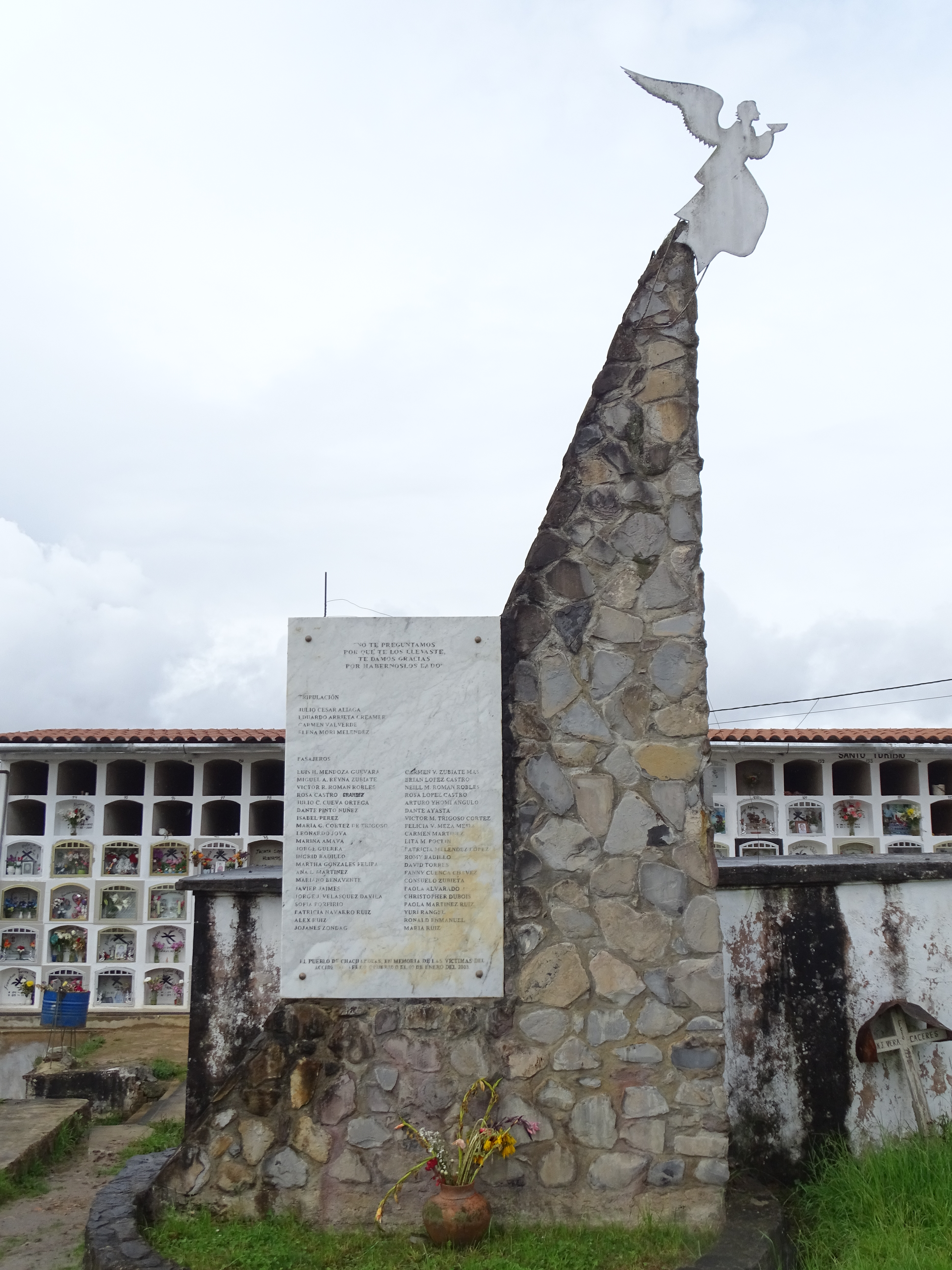 Memorial for TANS Perú Flight 222 in Chachapoyas cemetery including a list of the victims and a short description about the accident